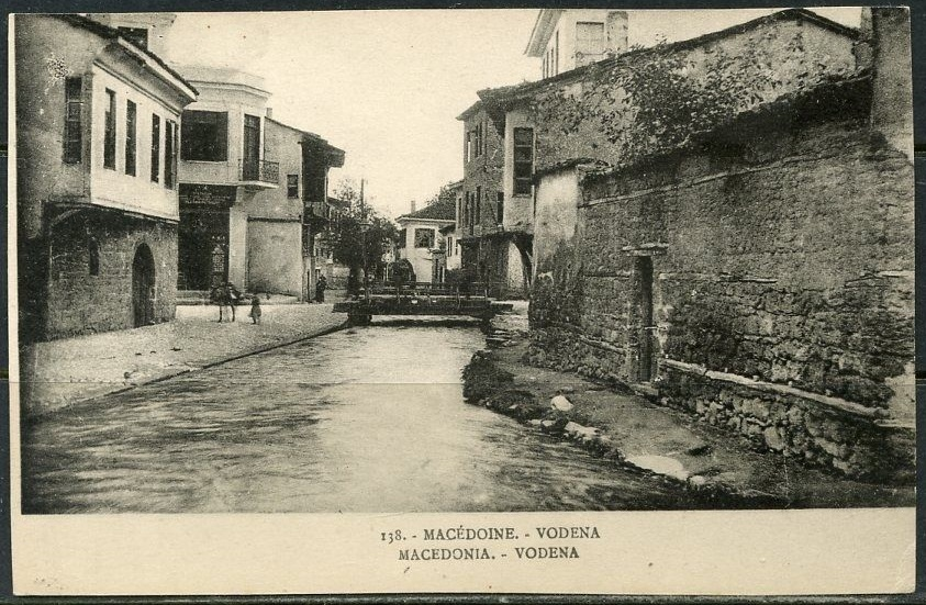 Voden Bridge